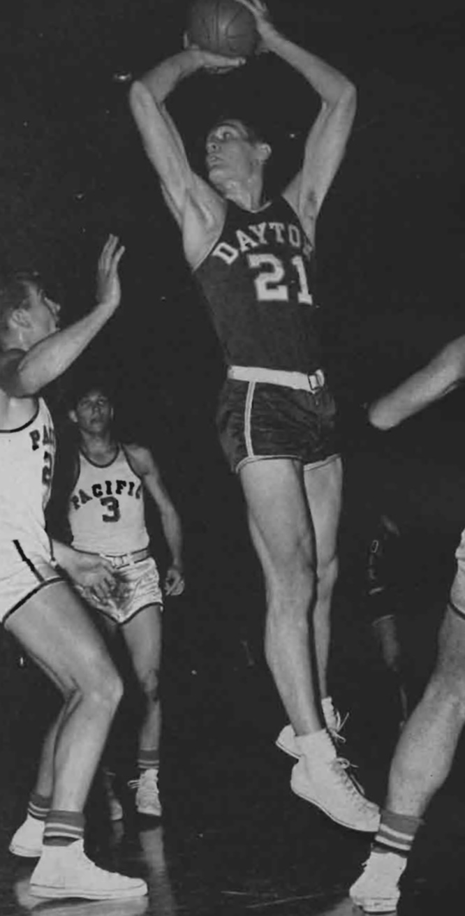 University of Dayton Flyers basketball player Bill Uhl from the 1955 “Daytonian”